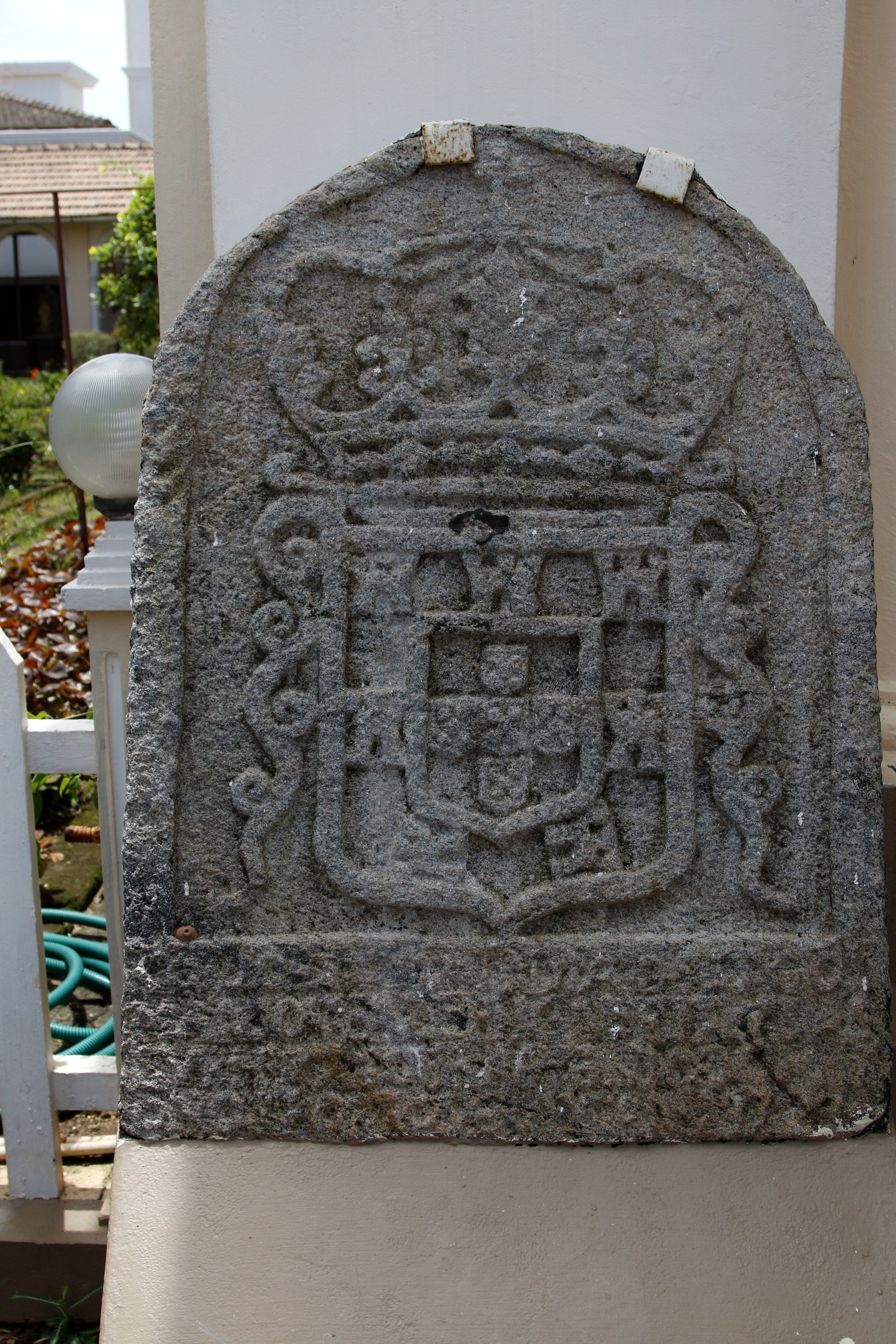 Inscription at Rosario church.Mangaluru.